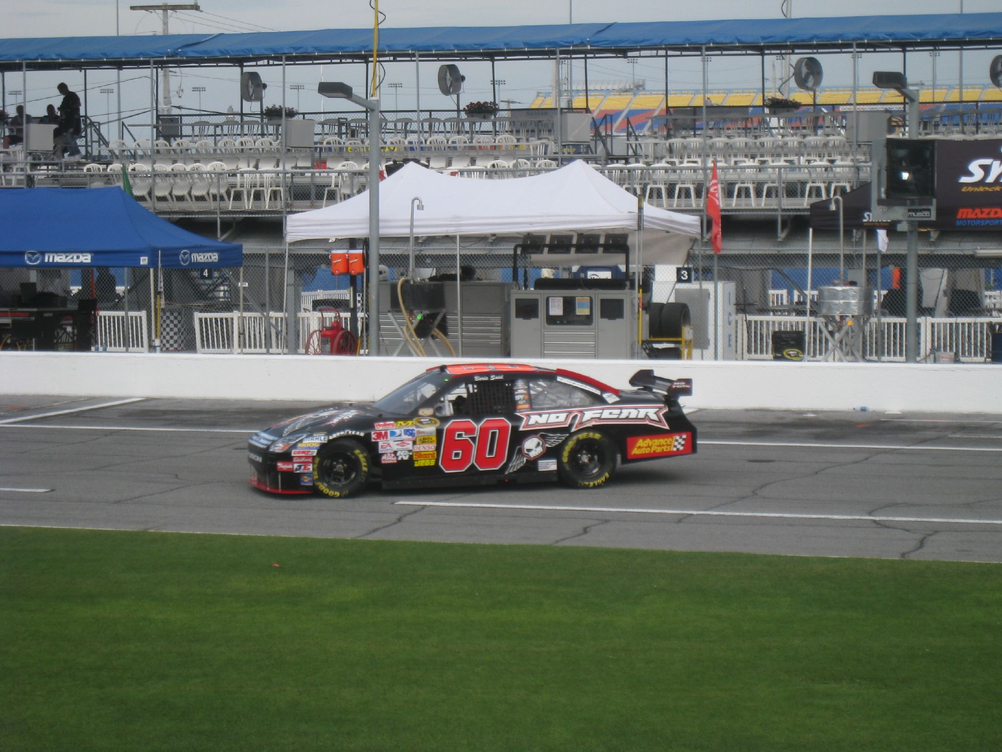 Boris Said doesn't have the funding to run a full schedule so I'm always happy when he does get a chance to race. Here he's turning around because final practice got rained out after they lined up and all the cars had to go back to the garage.